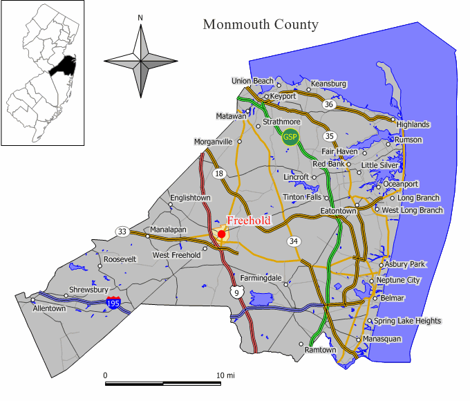 Position of Freehold Borough (highlighted in red) in Monmouth County. Monmouth County's position in New Jersey is in turn highlighted in red.